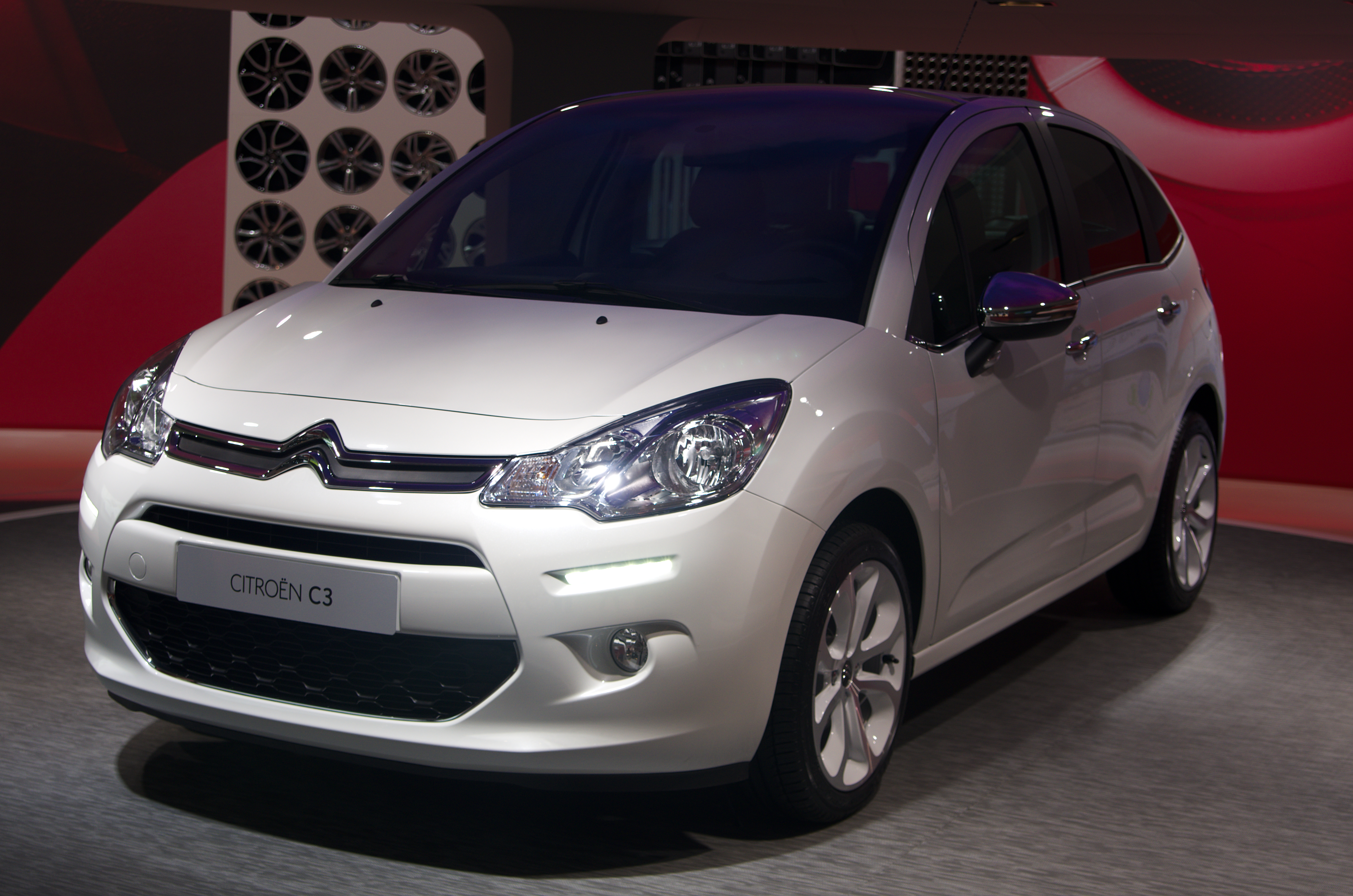 Geneva MotorShow 2013 - Citroen C3